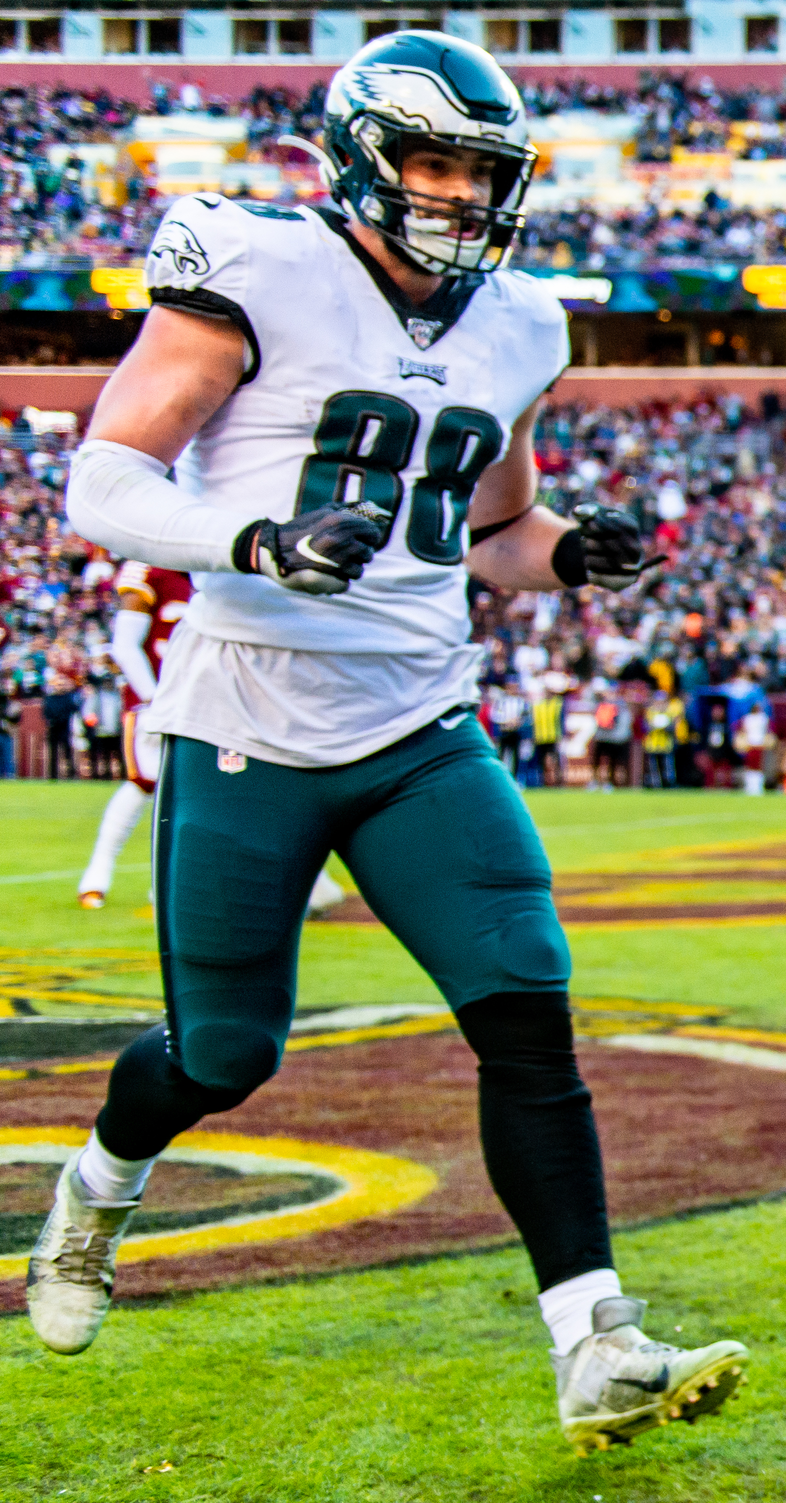 In 2019